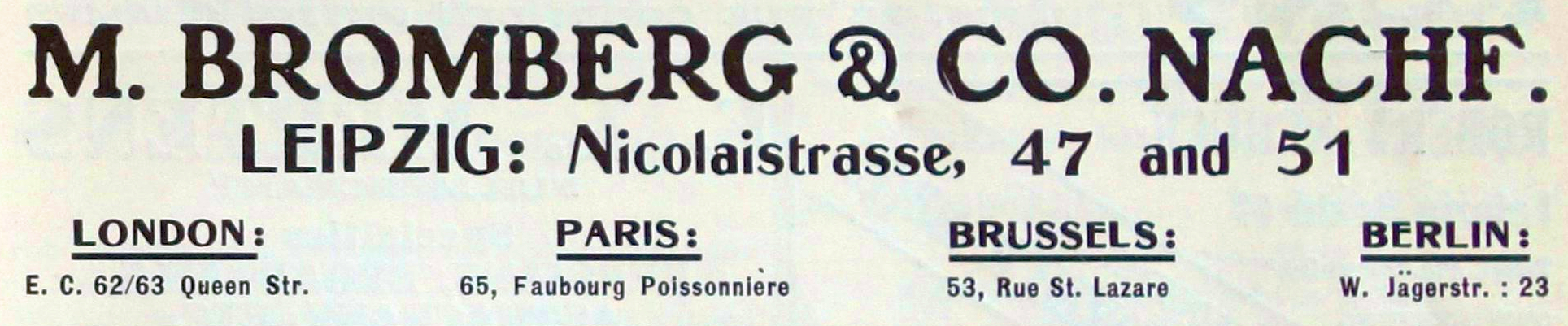 Fur Trade Review November 1914 (Ausschnitt). M. Bromberg & Co. Nachf., Leipzig (Nicolaistraße 47 and 51), Paris, Brussels, Berlin, fur merchant